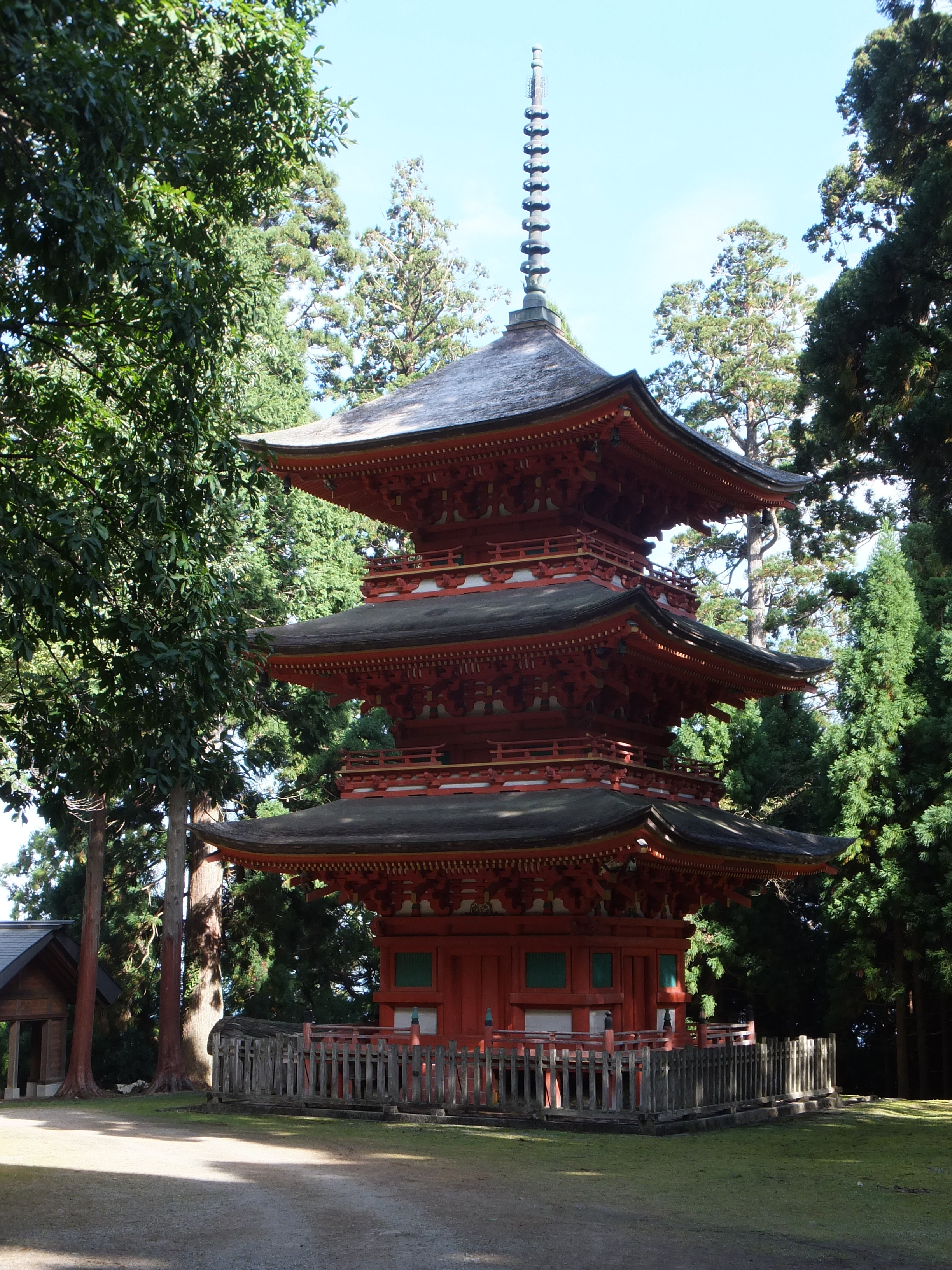 Nagusa shrine,Japan